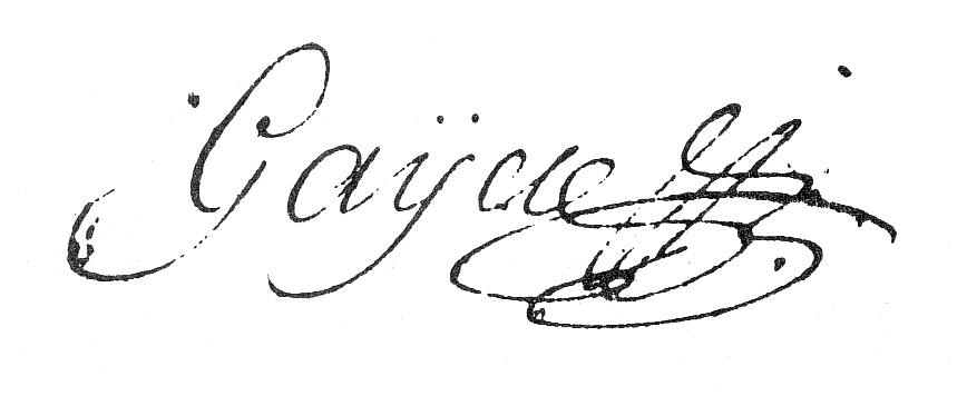 Signature of the architect Pierre de Gayette